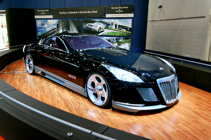 Cool until a footballist or Mr Bean buys one